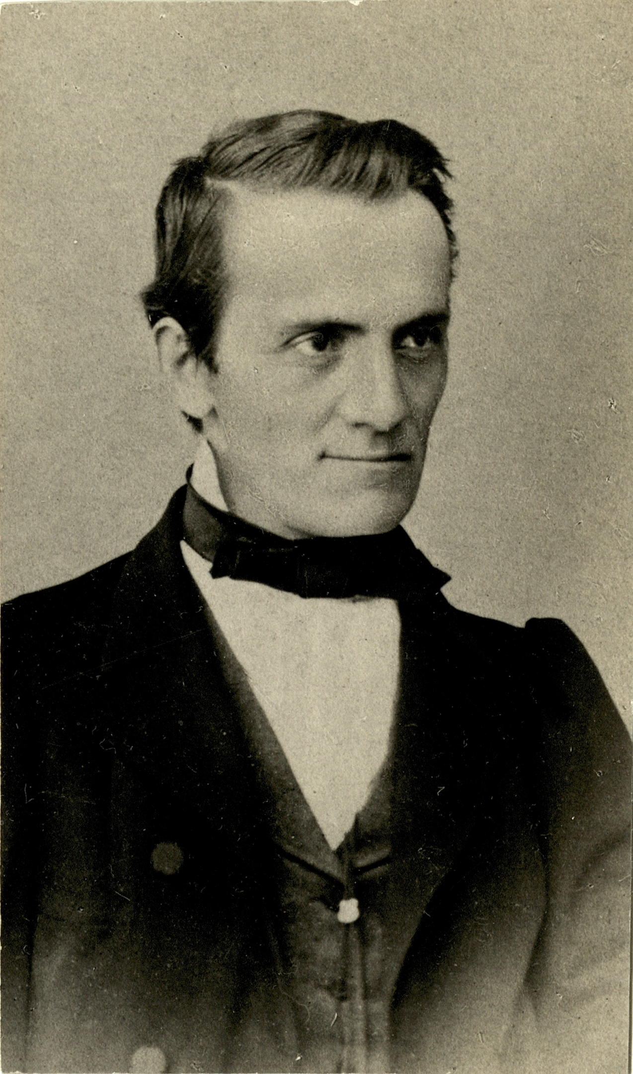 Anton Janežič (1828-1869), Slovene literary historian, linguist and editor.